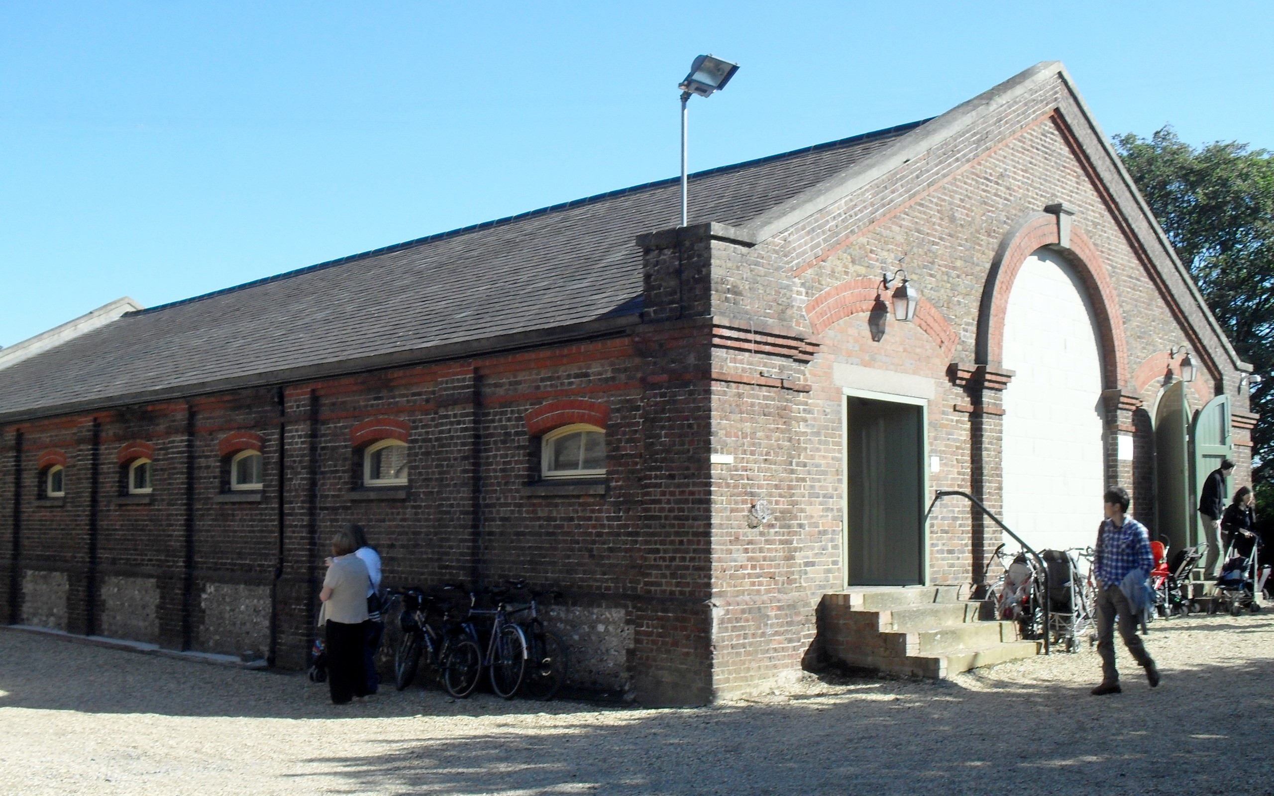 Former coal shed at the British Engineerium, The Droveway, West Blatchington, Hove, City of Brighton and Hove, England. Part of the former Goldstone Pumping Station, a waterworks built in 1866. Now a museum; pictured here on a rare open day during a period of long-term renovation. Listed at Grade II by English Heritage (IoE Code 365680)